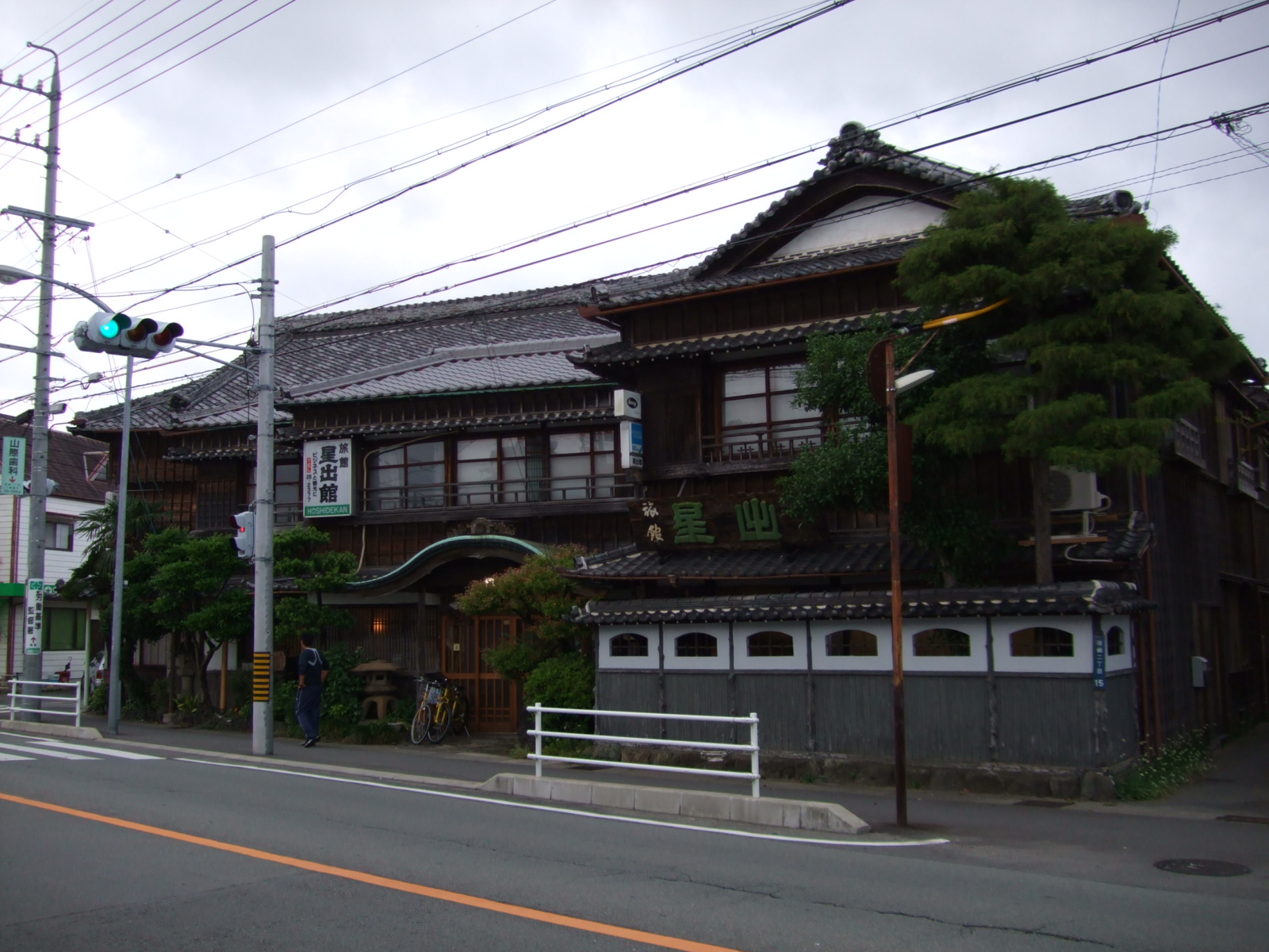 Hoshidekan is a traditional Japanese inn in Kawasaki area, Ise City, Mie, Japan.